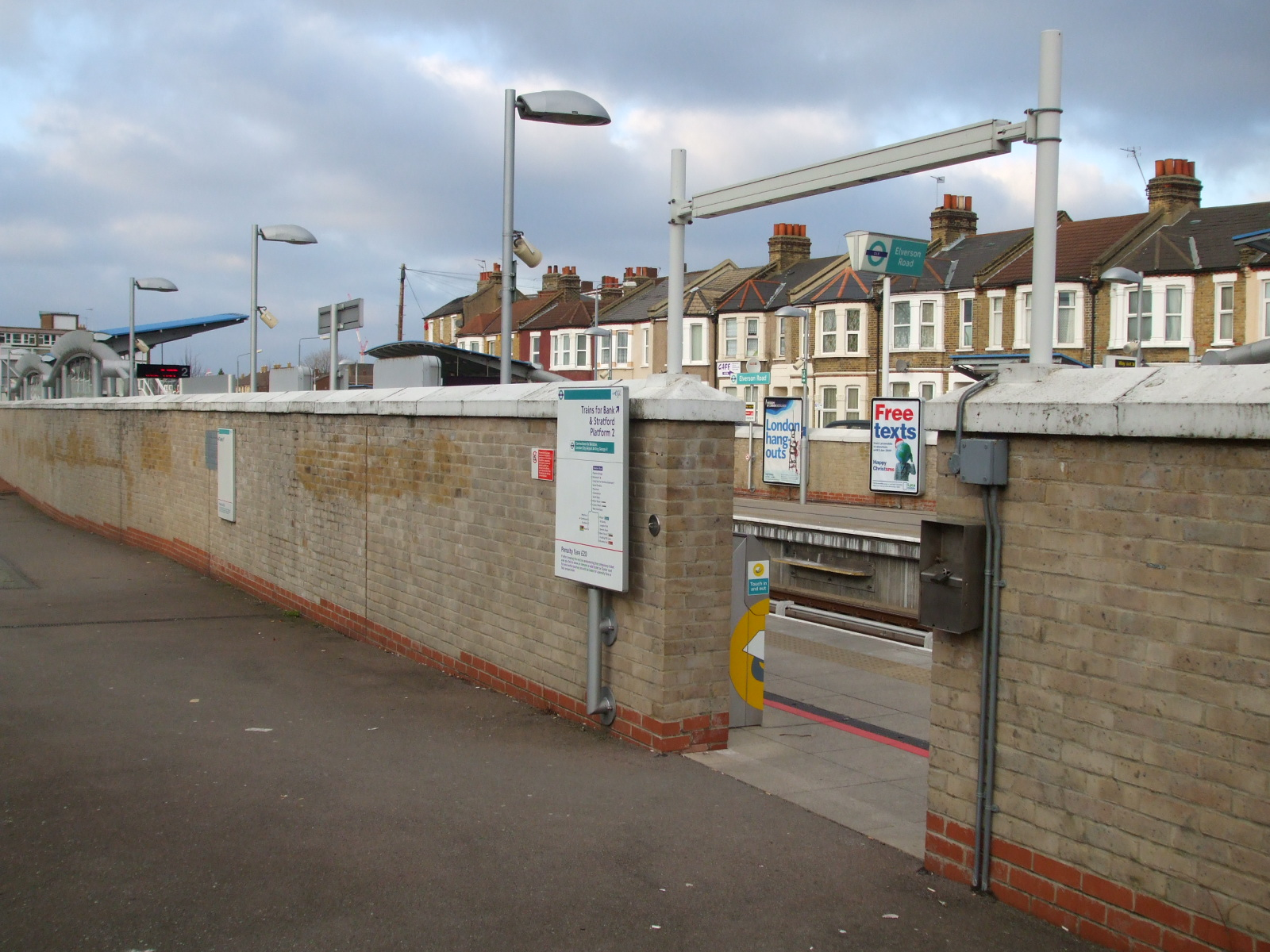 Elverson Road DLR station southern entrance, on the northbound side